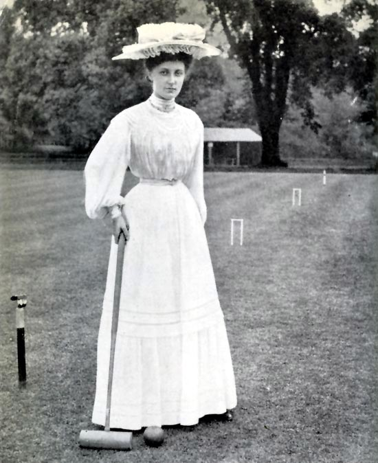 Nina Coote, Irish croquet player from the cover of 15 August 1906 issue of "The Bystander" as "Lady Croquet Champion of the United Kingdom."